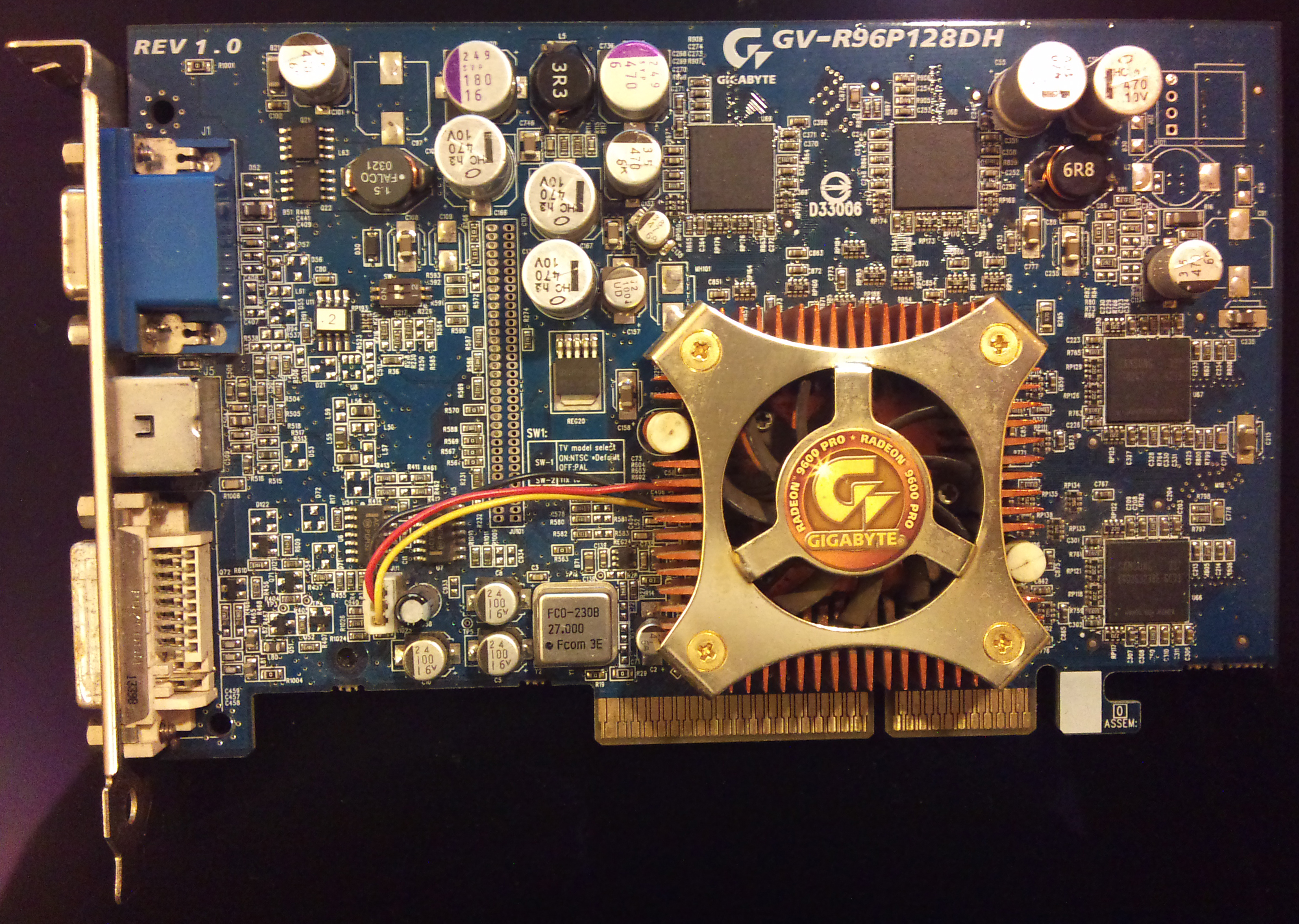 Gigabyte ATi Radeon 9600 Pro with 128Mb of DDR-RAM (GV-R96P128DH Rev1.0)